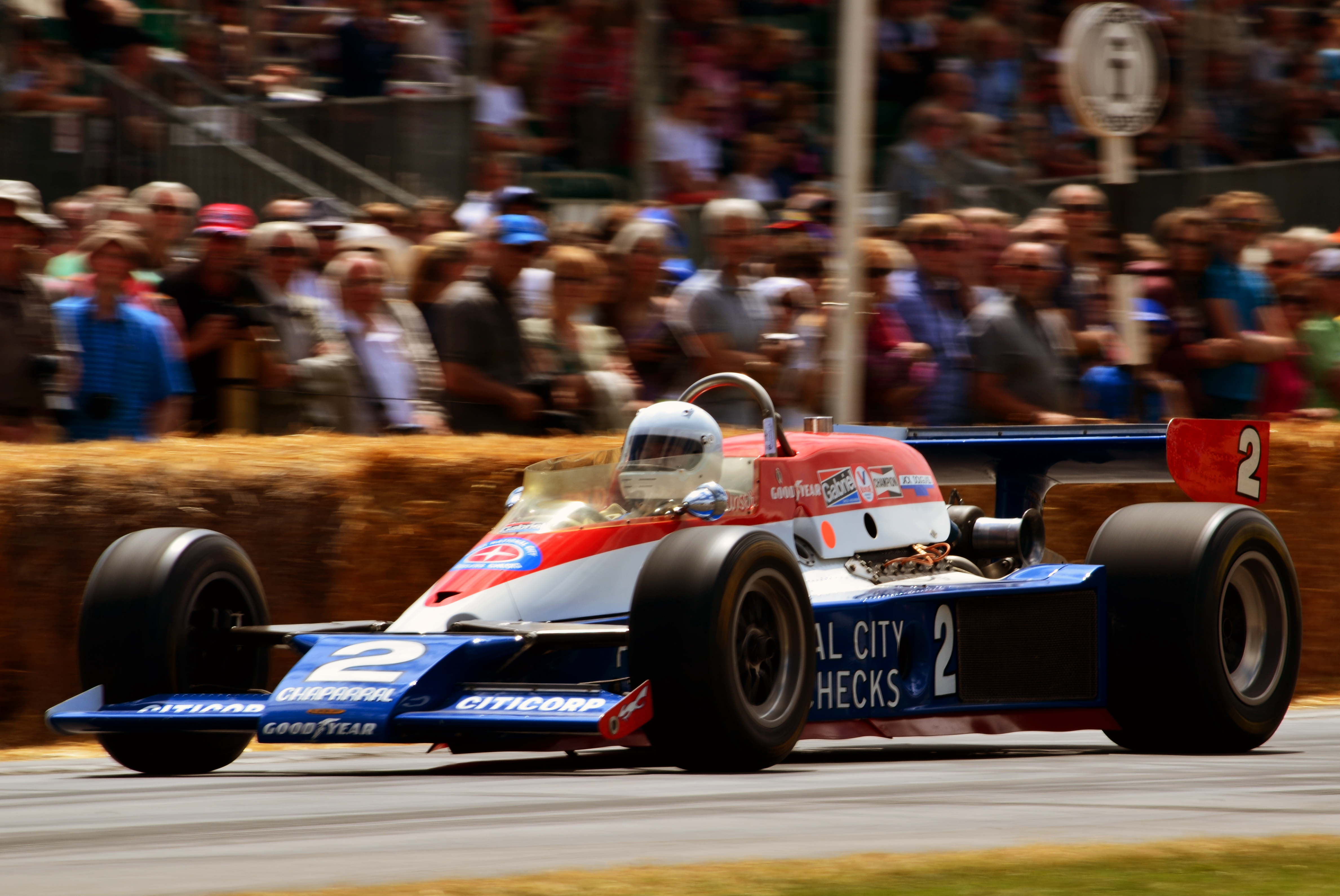 Al Unser, Sr. in his 1978 Lola T500 at the 2014 Goodwood Festival of Speed.